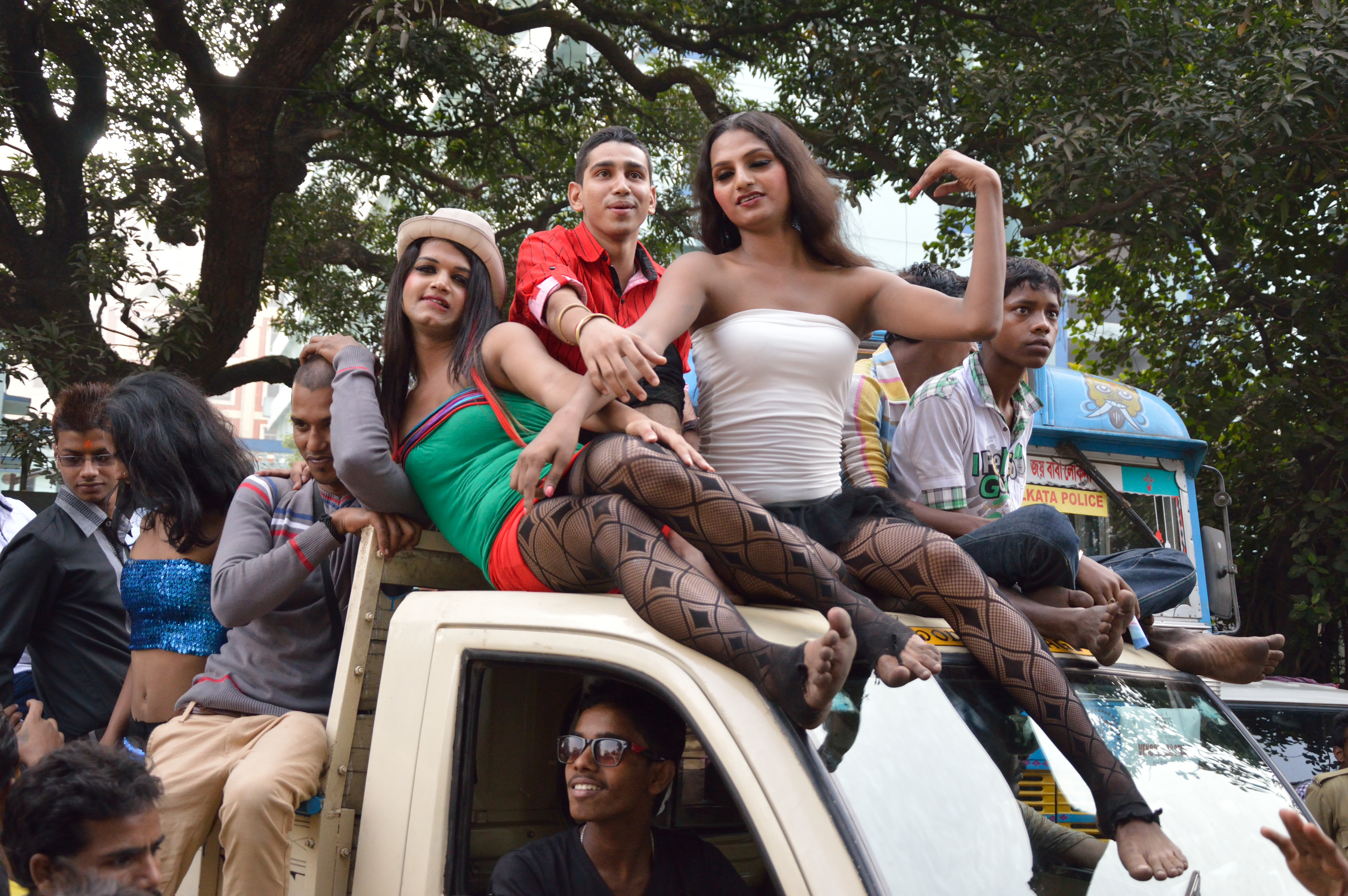 Photographed during the Chhath puja ceremony (festival dedicated to the Sun god) at the bank of river Hooghly, Kolkata. This Hindu festival regarded mainly by the people of Indian states Bihar, Uttar Pradesh, Jharkhand etc.